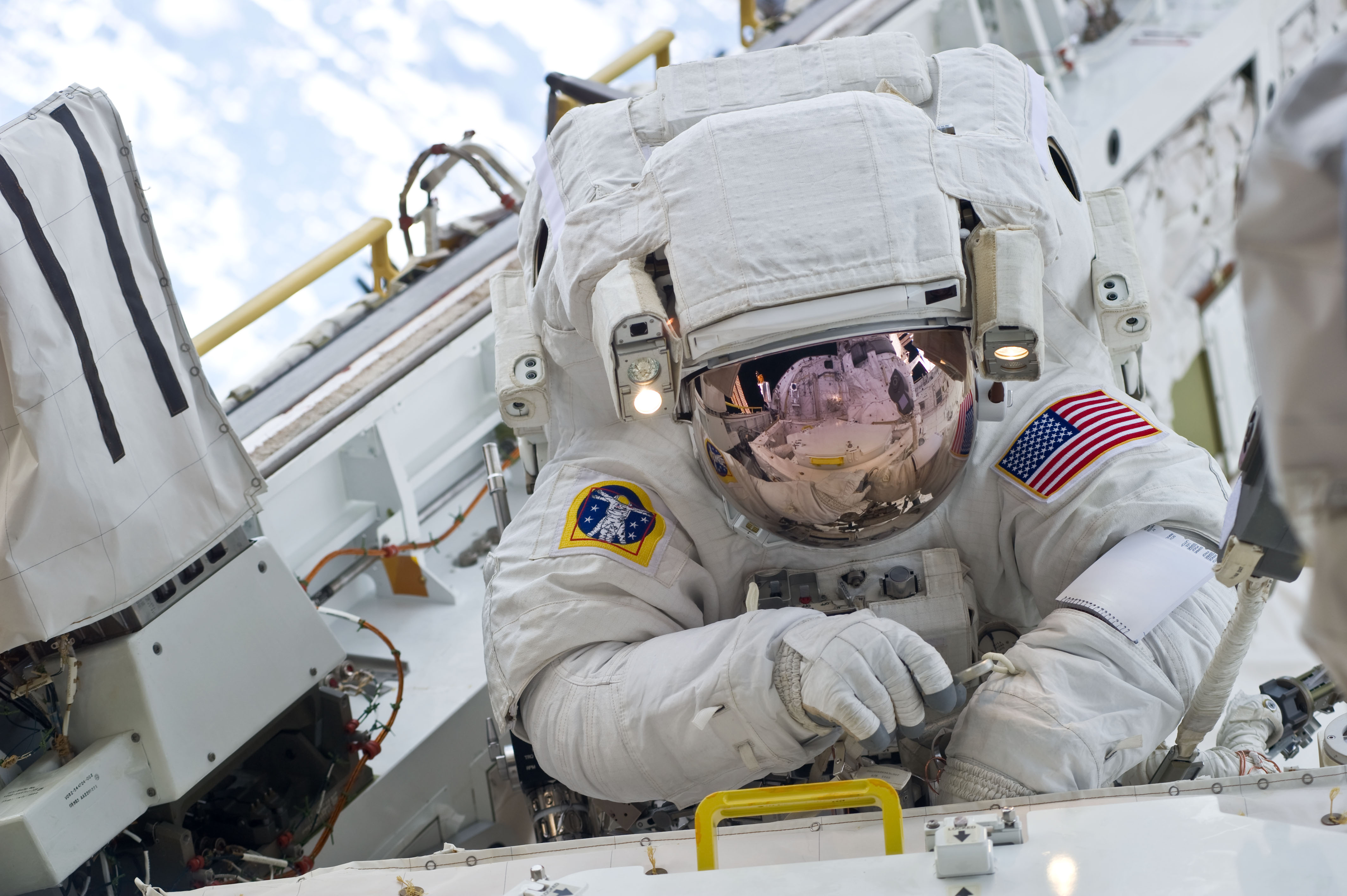 NASA astronaut Clayton Anderson, STS-131 mission specialist, participates in the mission's third and final session of extravehicular activity (EVA) as construction and maintenance continue on the International Space Station. During the six-hour, 24-minute spacewalk, Anderson and astronaut Rick Mastracchio (out of frame), mission specialist, hooked up fluid lines of the new 1,700-pound tank, retrieved some micrometeoroid shields from the Quest airlock's exterior, relocated a portable foot restraint and prepared cables on the Zenith 1 truss for a spare Space to Ground Ku-Band antenna, two chores required before space shuttle Atlantis' STS-132/ULF-4 mission in May.